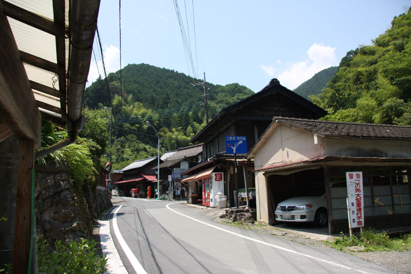 Jinba-Kogen-Shita (Yamanashi-Kanagawa-Tokyo Prefectural Road 521 Uenohara-Hachioji Route), Hachioji, Tokyo, Japan